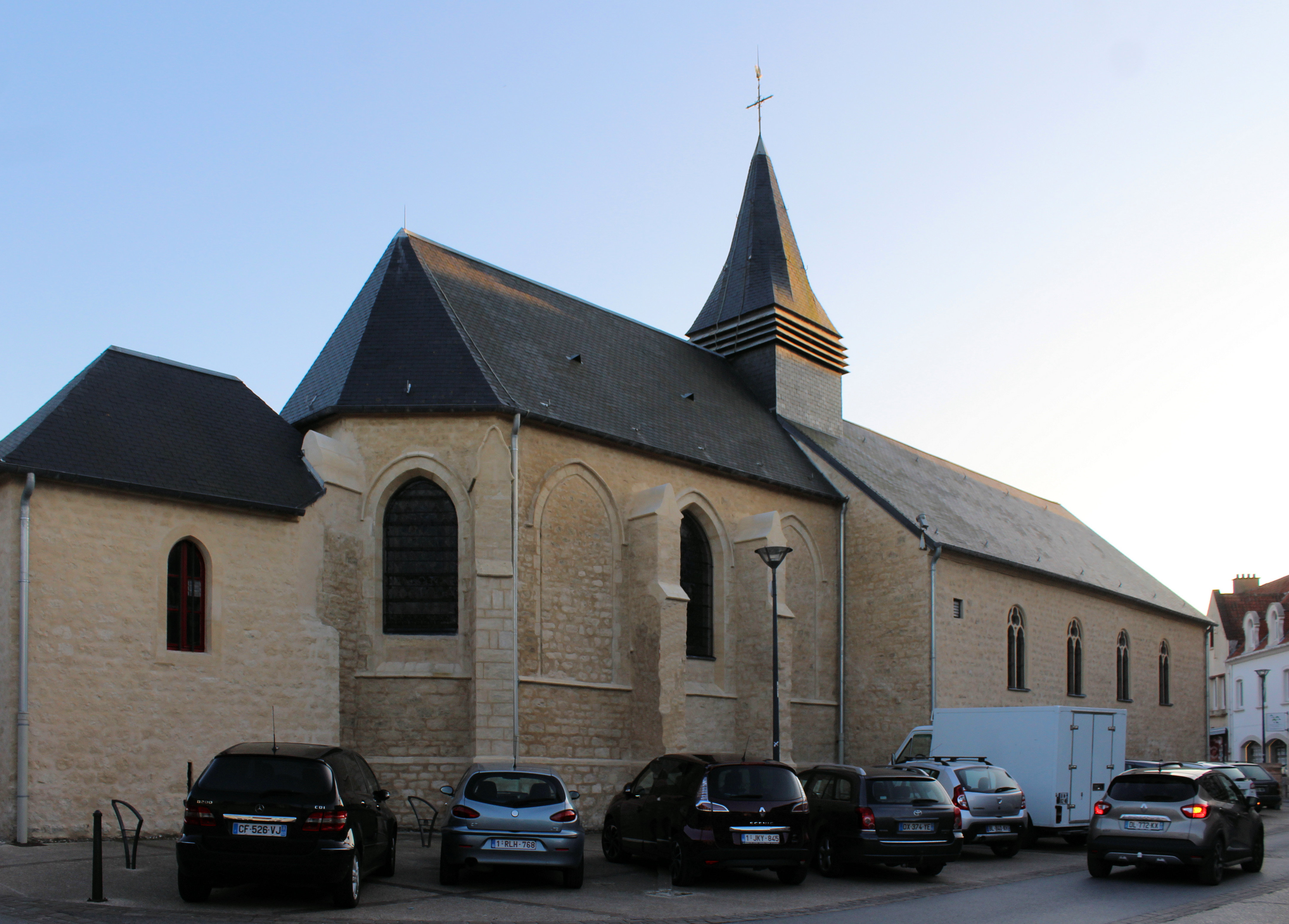 Wissant, the church Saint-Nicolas